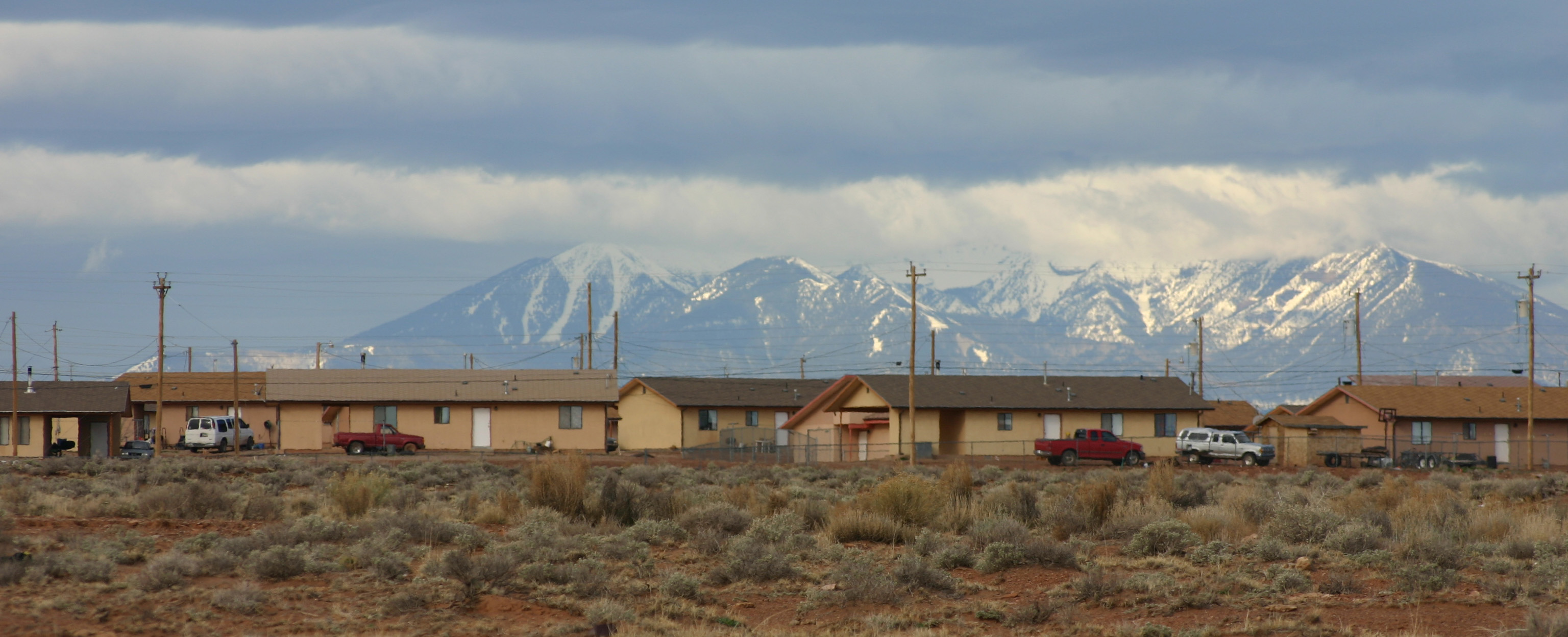 View on the way to Flagstaff, of the small Navajo township of Leupp. geotagged